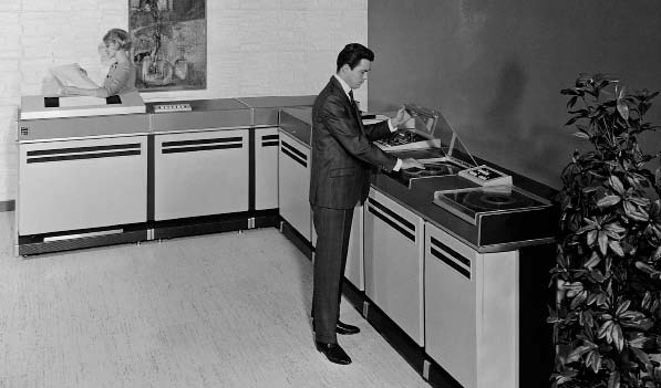 Randstad's first computer